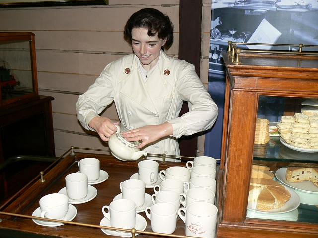 'STEAM' museum, Kemble Drive, Swindon The museum celebrates the years between 1843 and 1986 when Swindon was home to the Great Western Railway manufacturing centre where locomotives, carriages and wagons were built and repaired. It is housed in what used to be 'R' shop. A feature of the museum is the use of tableaux to illustrate a facet of life in the works. In this one a very cheerful tea-lady is on hand to provide refreshments to hungry and thirsty passengers.